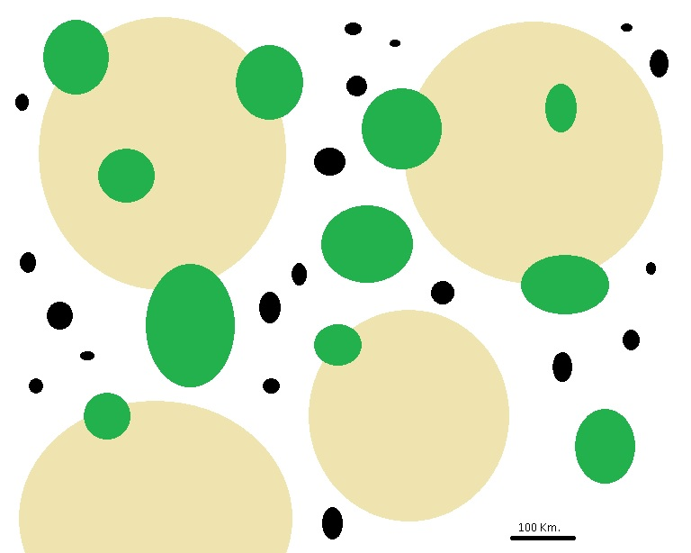 An example on Inter-Crater Basins on Mercury. Yellow shows the intercrater plains where green shows younger impact craters. White is the surrounding areas of these features as well as black being other craters of the area.